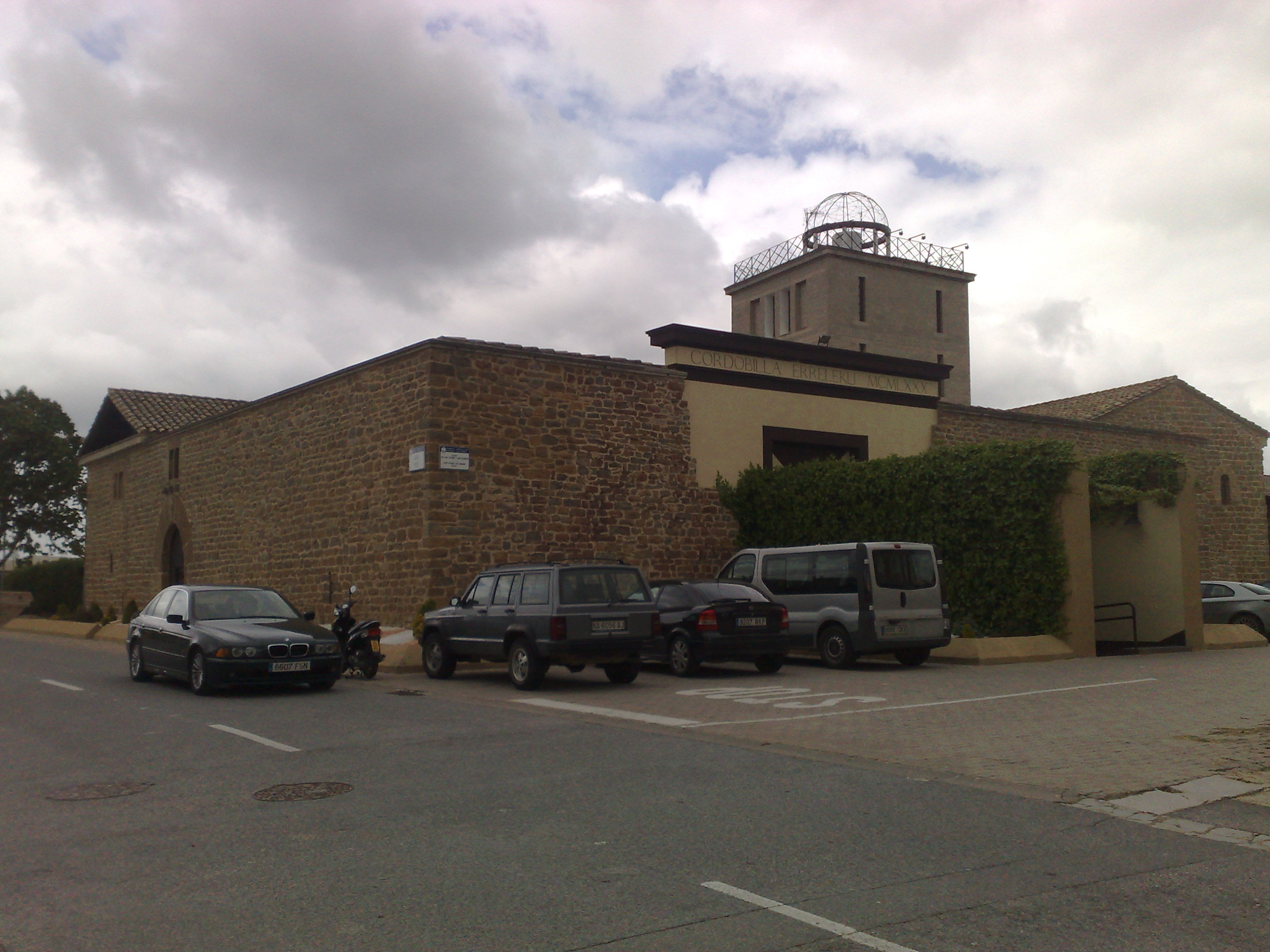 Restaurant "Erreleku" in Cordobilla, Galar, Navarre, Basque Country.